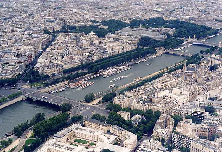 View from the Eiffel Tower. Photographed by Adrian Pingstone in June 2002 and released to the public domain.